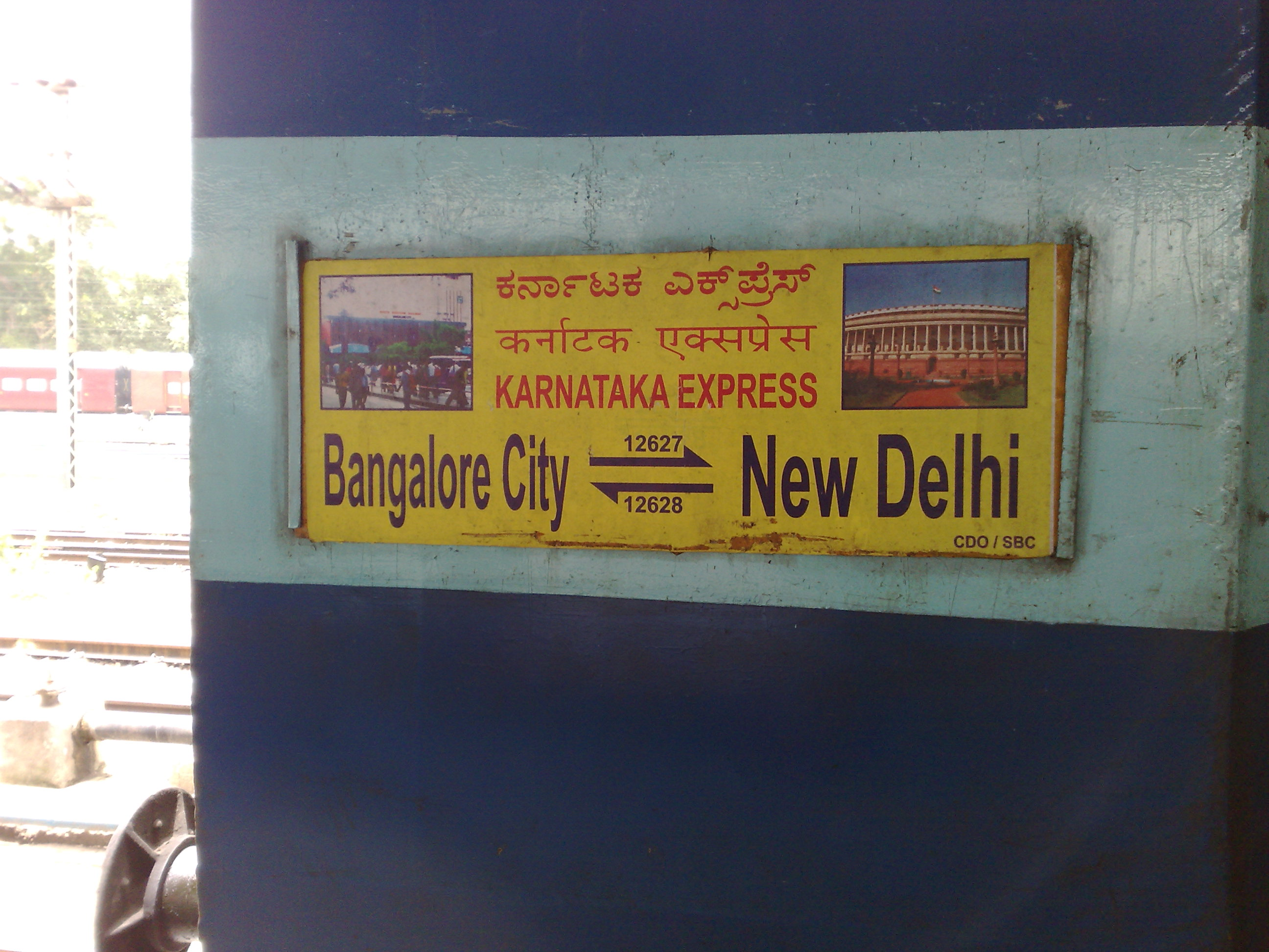 Karnataka Express - trainboard